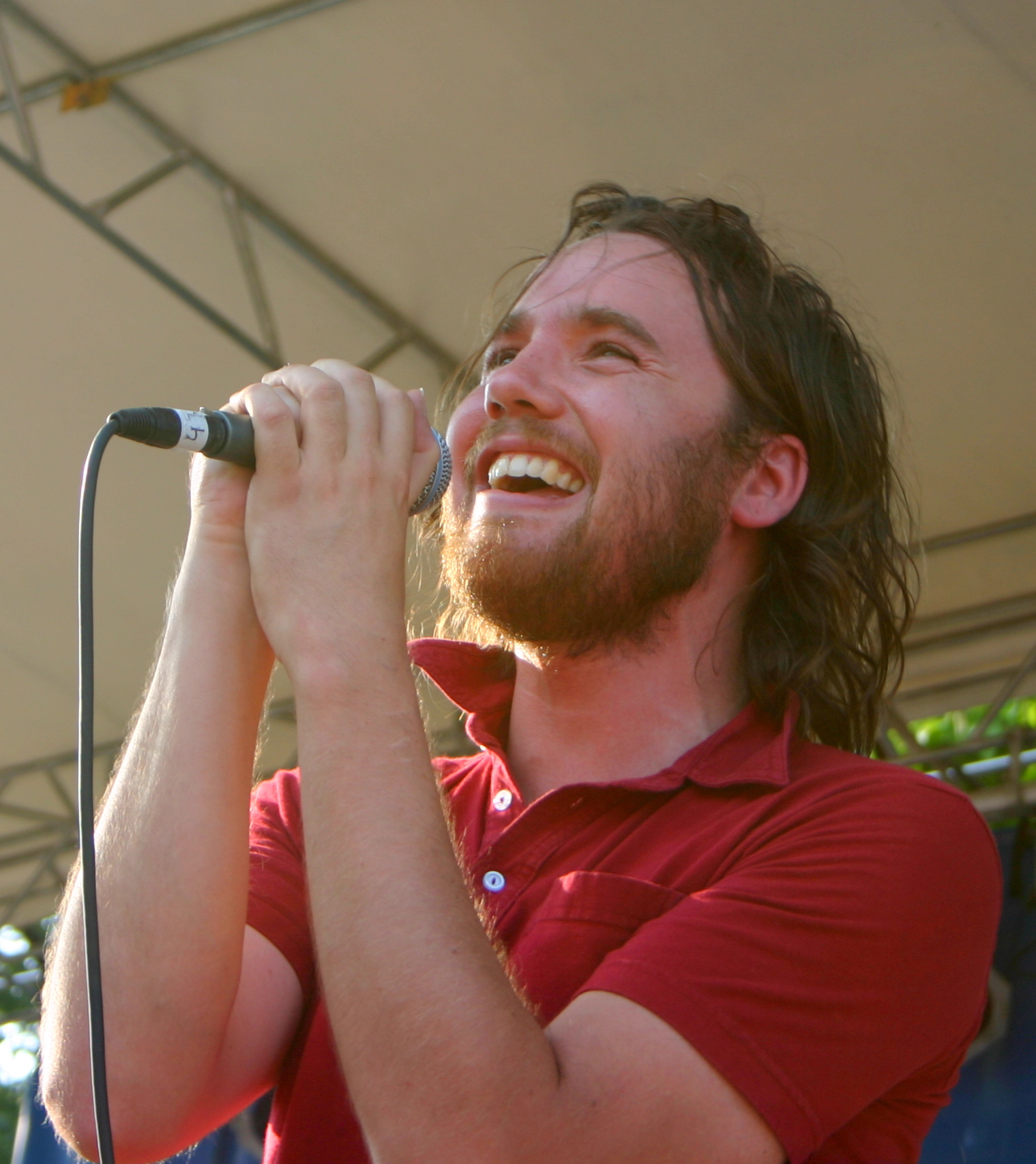 Kevin Drew of Broken Social Scene at the Intonation Music Festival, 2005.